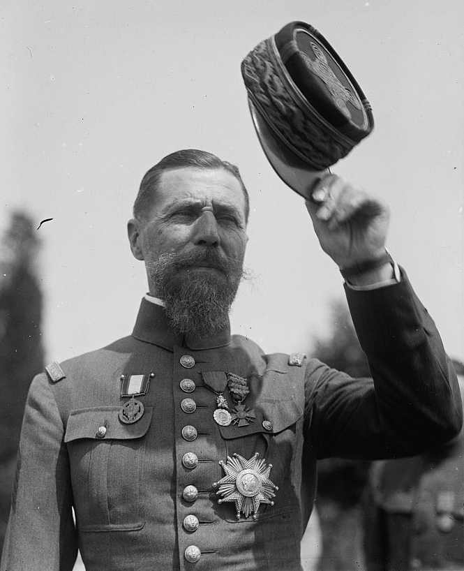 French general Henri Joseph Eugène Gouraud (1867-1946) in 1923